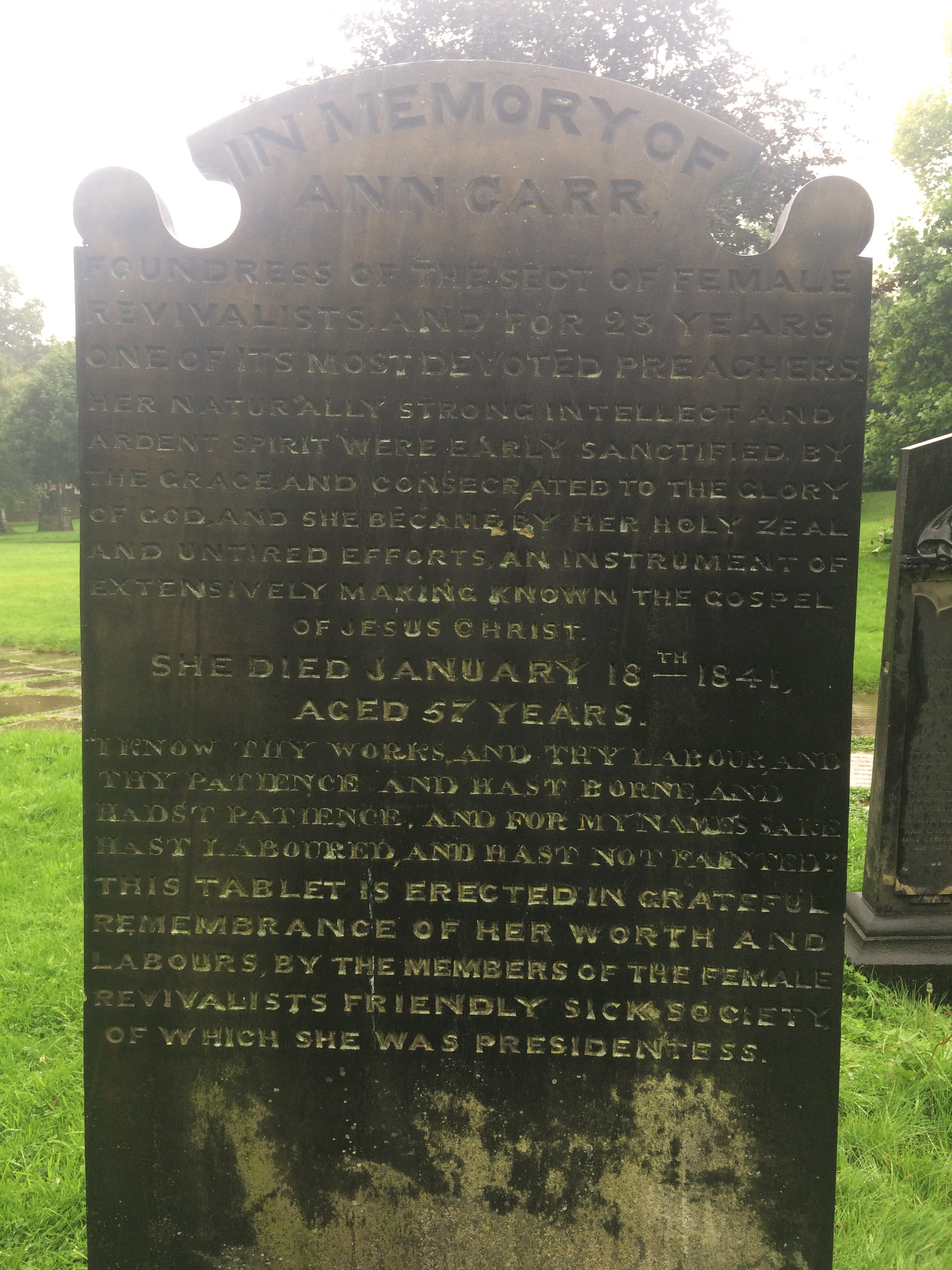 The grave of Ann Carr, the founder of the Female Revivalist Party who died in 1841 and is buried in the former Leeds General Cemetery, now part of the campus of the University of Leeds